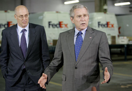 President George W. Bush addresses his remarks on the economy following his meeting with small-to-medium-sized business leaders Friday, Oct. 6, 2006, at the FedEx Express DCA Facility in Washington, D.C., during a roundtable discussion on job growth and the economy. U.S. Secretary of the Treasury Henry Paulson, is seen background-left. White House photo by Kimberlee Hewitt